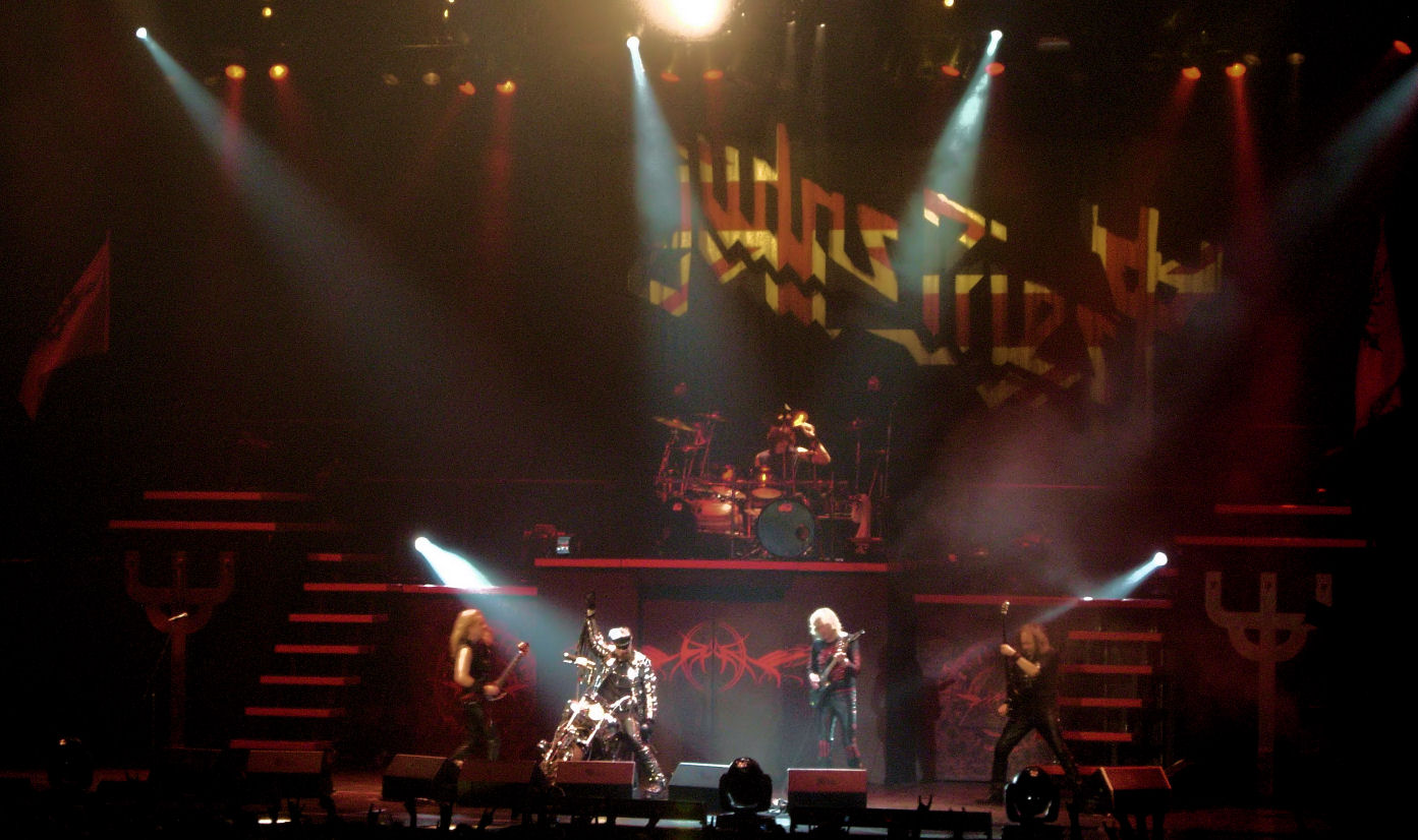 Judas Priest on stage at Wembley Arena during the Priest Feast Tour on the 21st Feb 2009